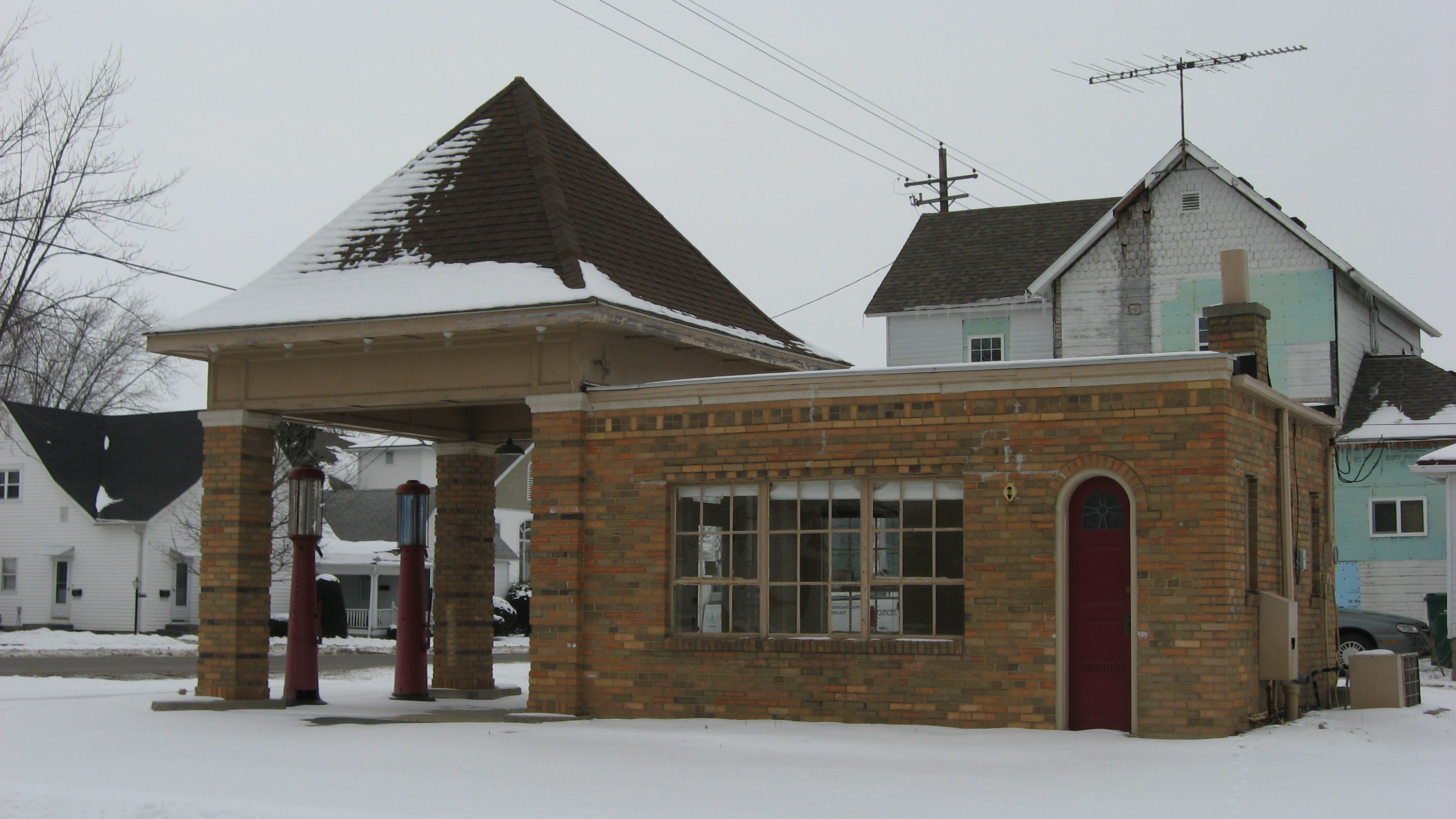 Western side and rear of the Hy-Red Gasoline Station, located at 203 E. Main Street (U.S. Route 35) in downtown Greentown, Indiana, United States. Built in 1930, it is listed on the National Register of Historic Places.